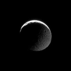 Original Caption Released with Image: The transition from light to dark takes place on two fronts in this image of Mimas. The two terminators that stretch across the moon are created by sunshine across the north and Saturn-shine in the east. This view looks toward the trailing hemisphere of Mimas (396 kilometers, or 246 miles across). North on Mimas is up and rotated 33 degrees to the right. The image was taken in visible light with the Cassini spacecraft narrow-angle camera on Jan. 23, 2009. The view was acquired at a distance of approximately 508,000 kilometers (316,000 miles) from Mimas and at a Sun-Mimas-spacecraft, or phase, angle of 152 degrees. Image scale is 3 kilometers (2 miles) per pixel.